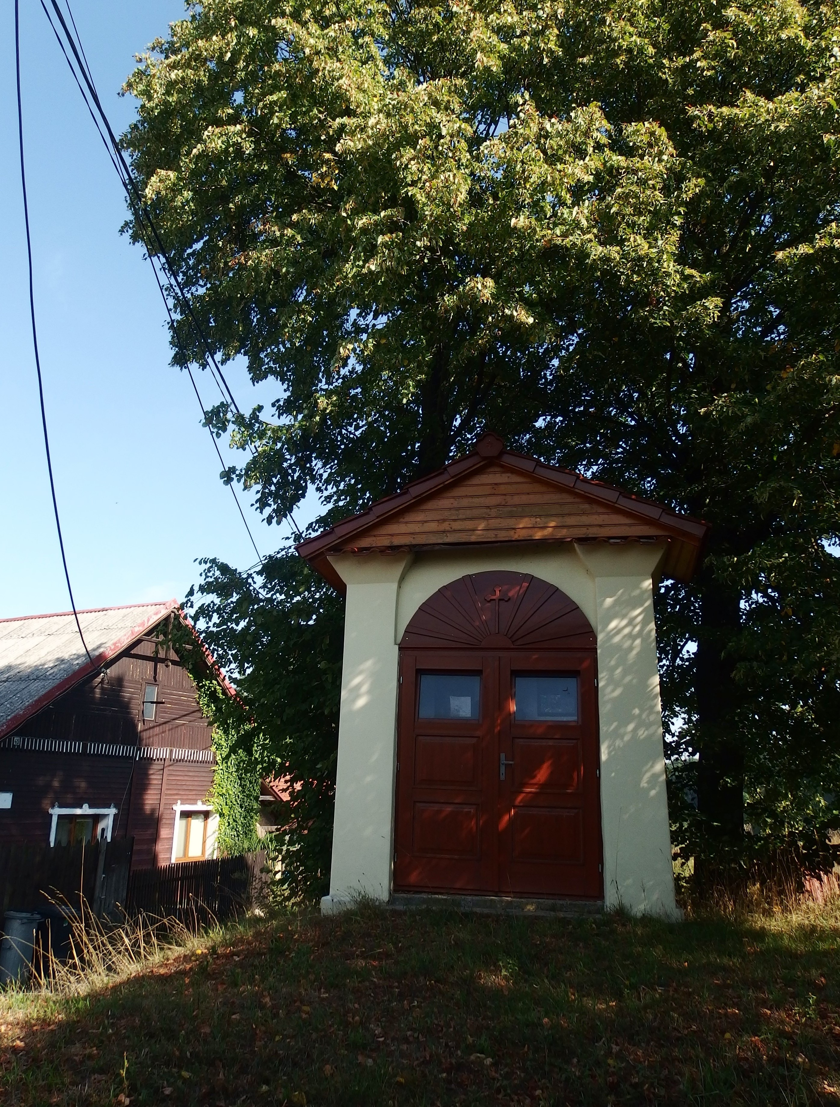 Jeseník nad Odrou, Nový Jičín District, Czech Republic, part Polouvsí.